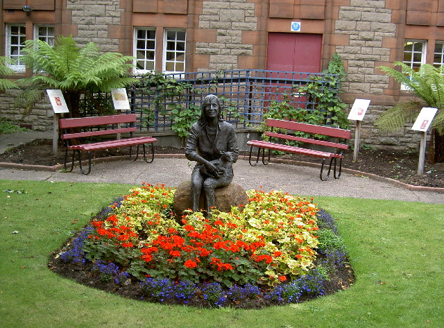 Linda McCartney Memorial Garden. Memorial in the grounds of the library